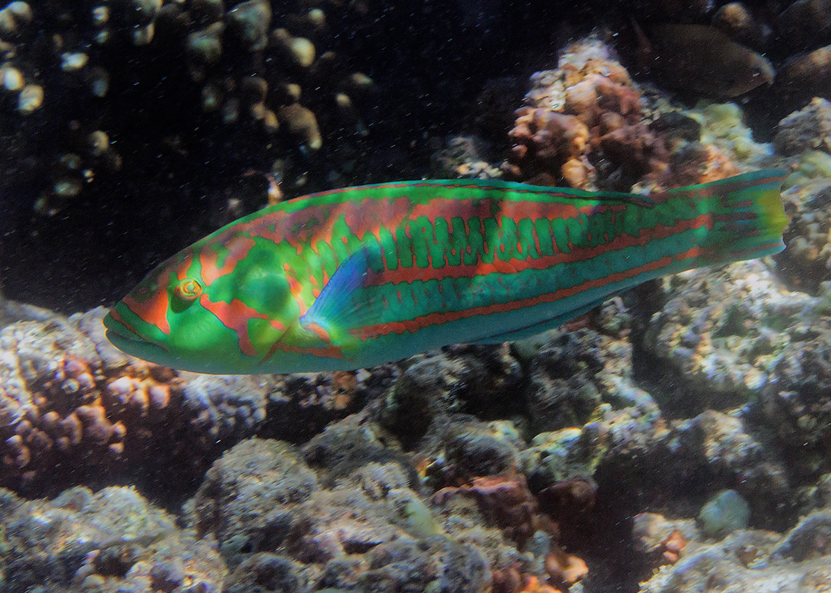 Thalassoma purpureum seen in La Réunion.